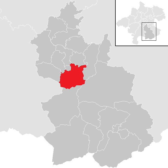 district Kirchdorf an der Krems